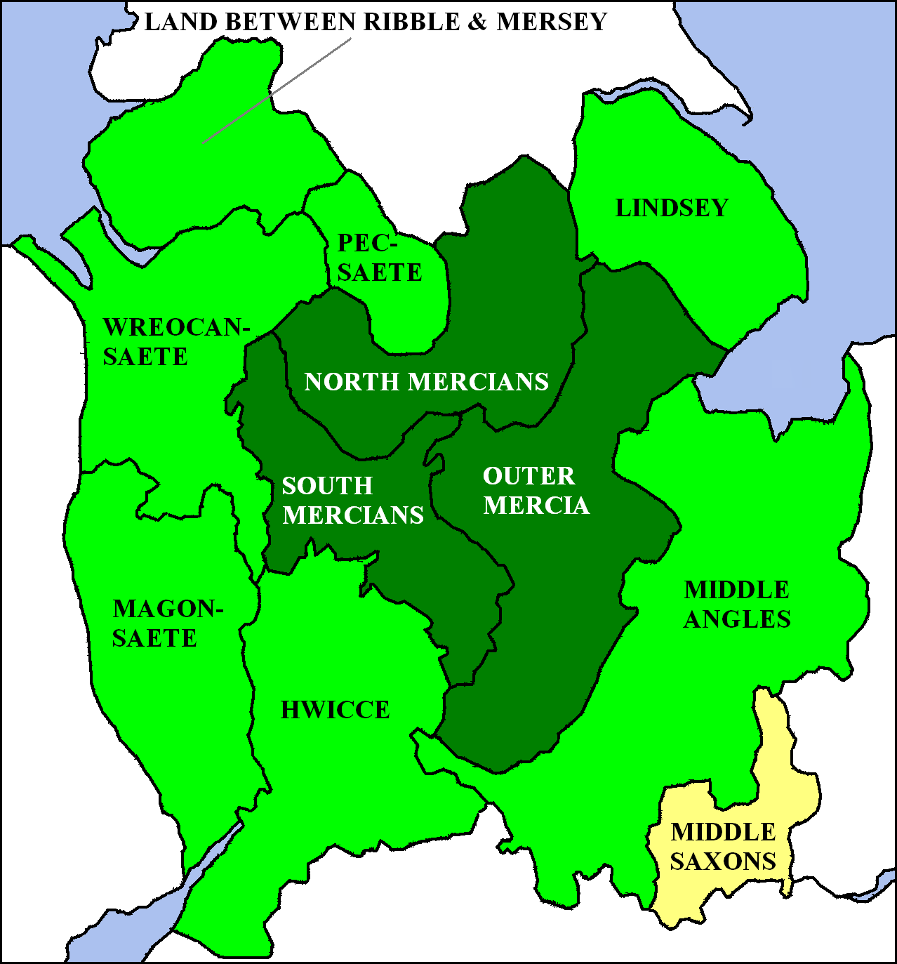 I created this image. The Kingdom of Mercia at its greatest extent (7th to 9th centuries) is shown in green, with the original core area (6th century) given a darker tint. TharkunColl 16:23, 6 June 2006 (UTC)